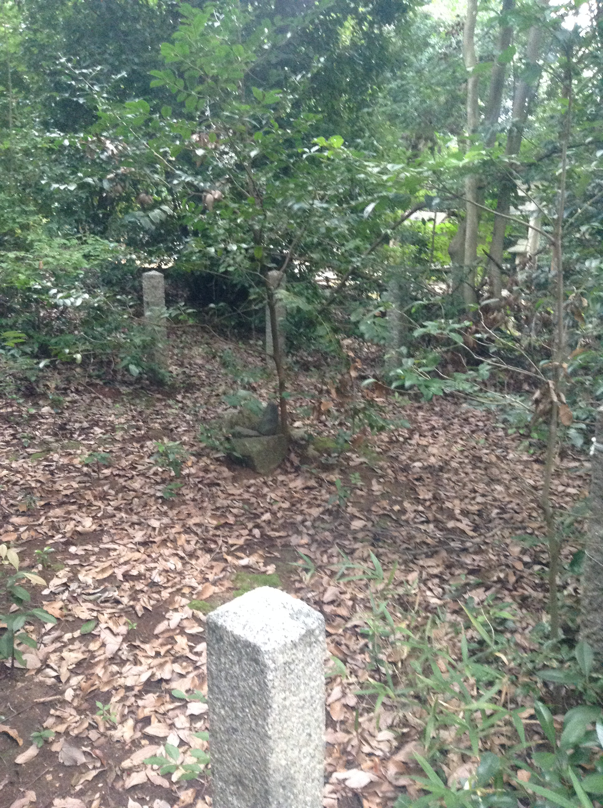 One traditional grave site of the Japanese poet Ariwara no Narihira, on Yoshida-yama in Kyoto. (The wooden placard reading "業平塚" is not in the frame.)